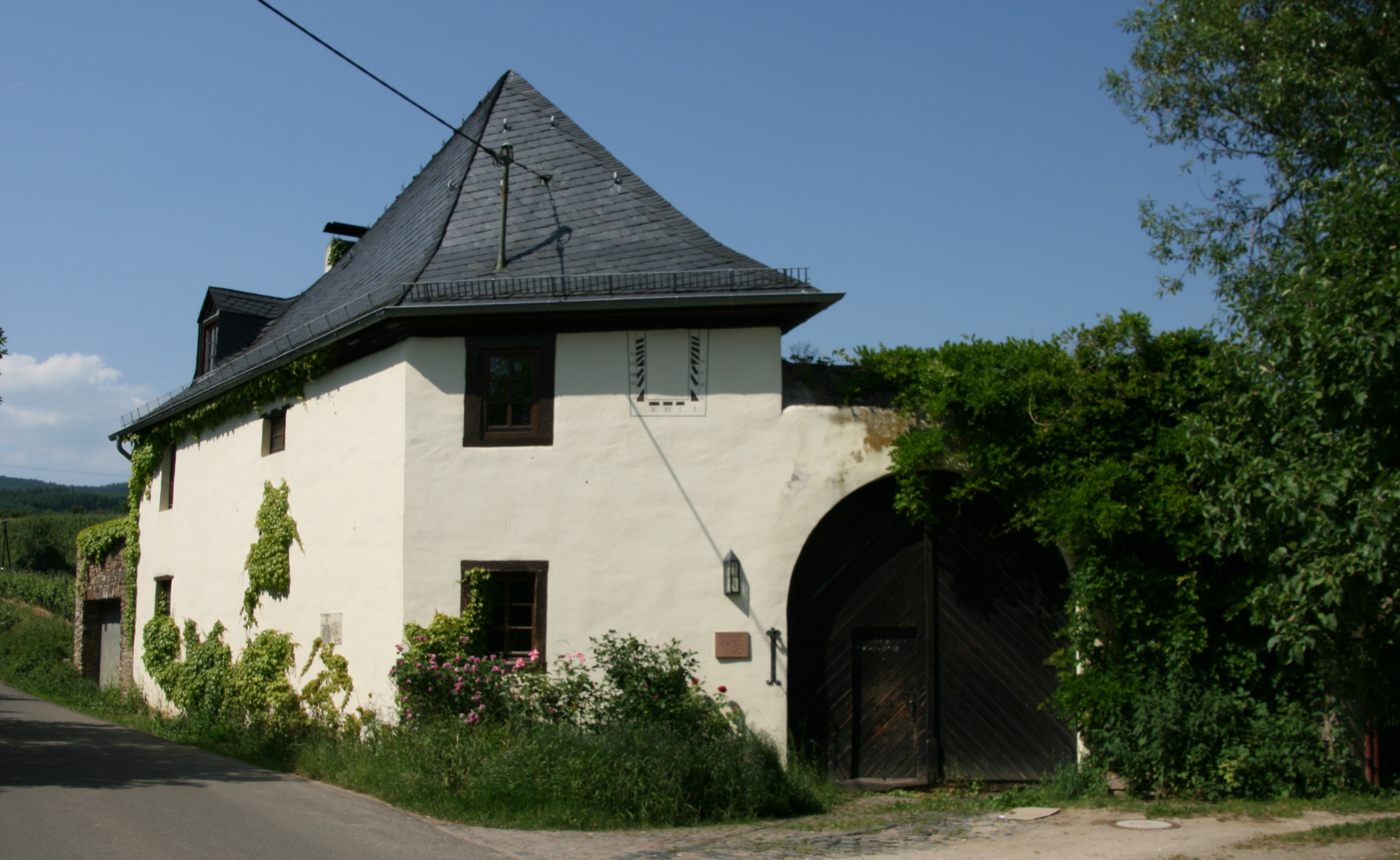 Former Cistercian monastery Kloster Gottesthal: Gatehouse from 1697. Oestrich-Winkel, Hesse, Germany.